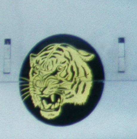 Squadron emblem of the Swiss Air Force